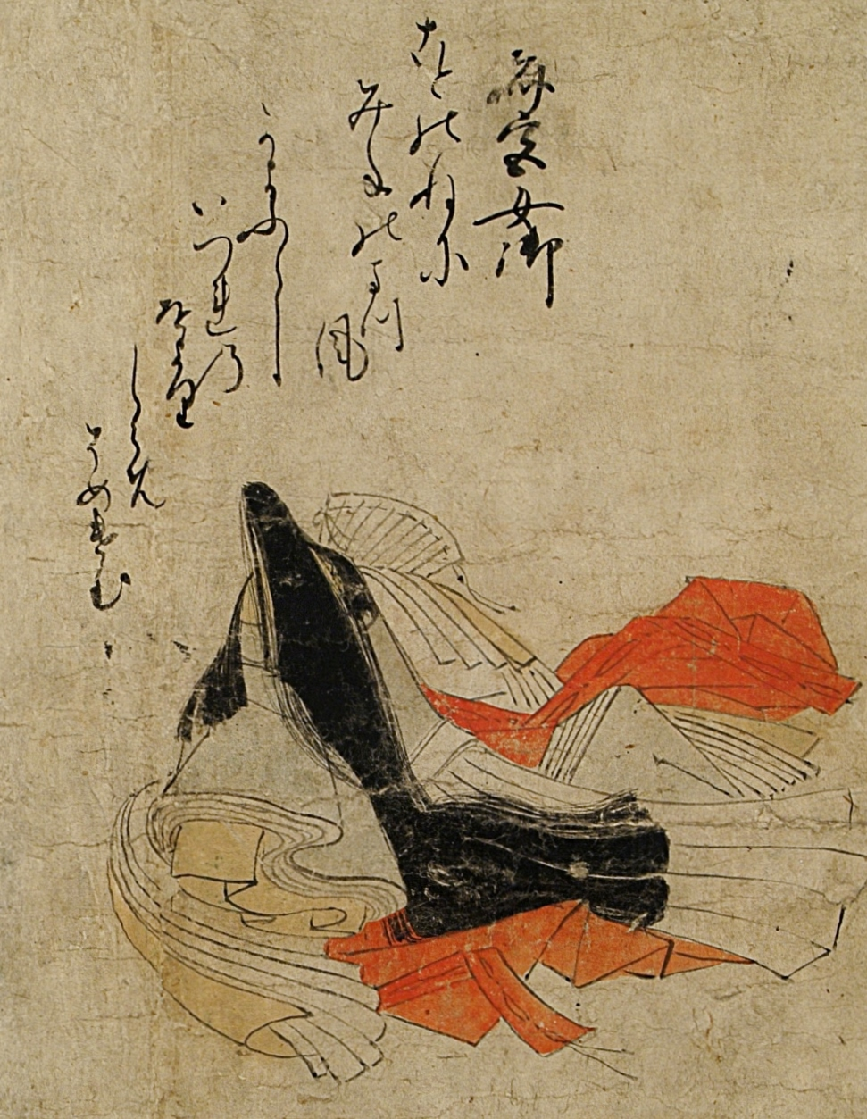 Saigū no Nyōgo, Thirty-Six Immortals of Poetry, Kyōun/Keiun edition, Tokiwayama Bunko, Japan